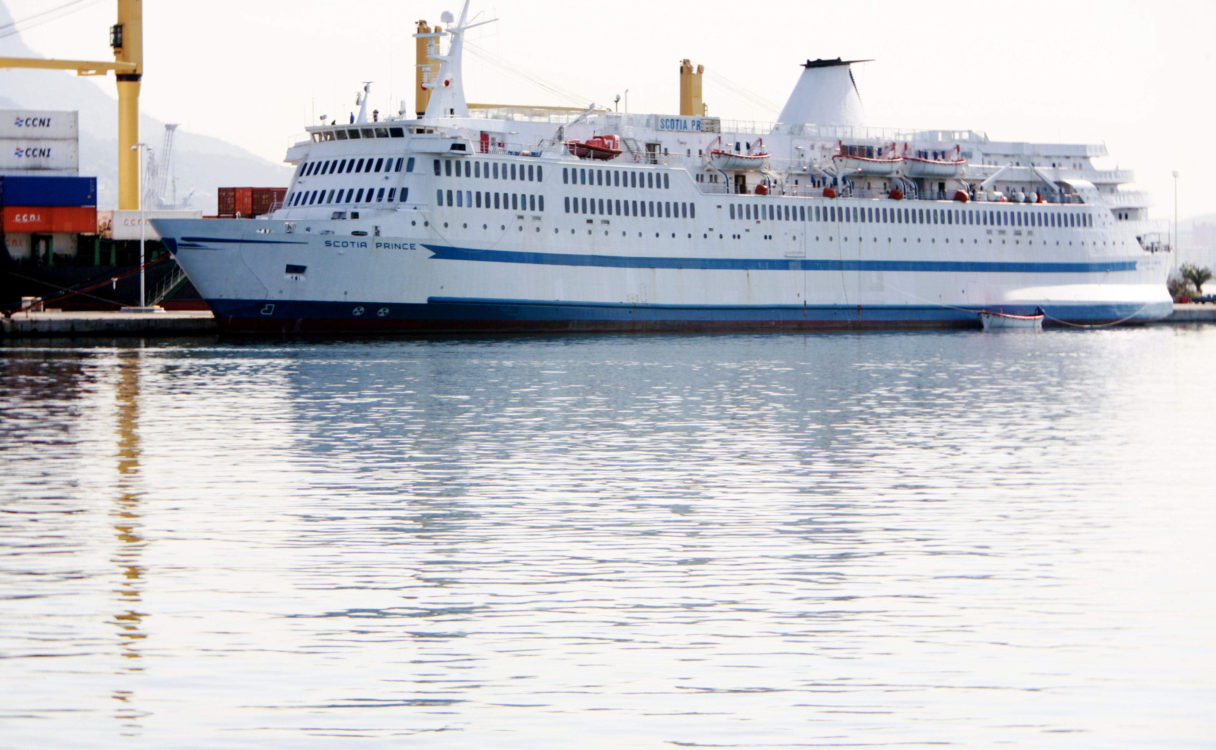 MS Scotia Prince in Toulon harbour.